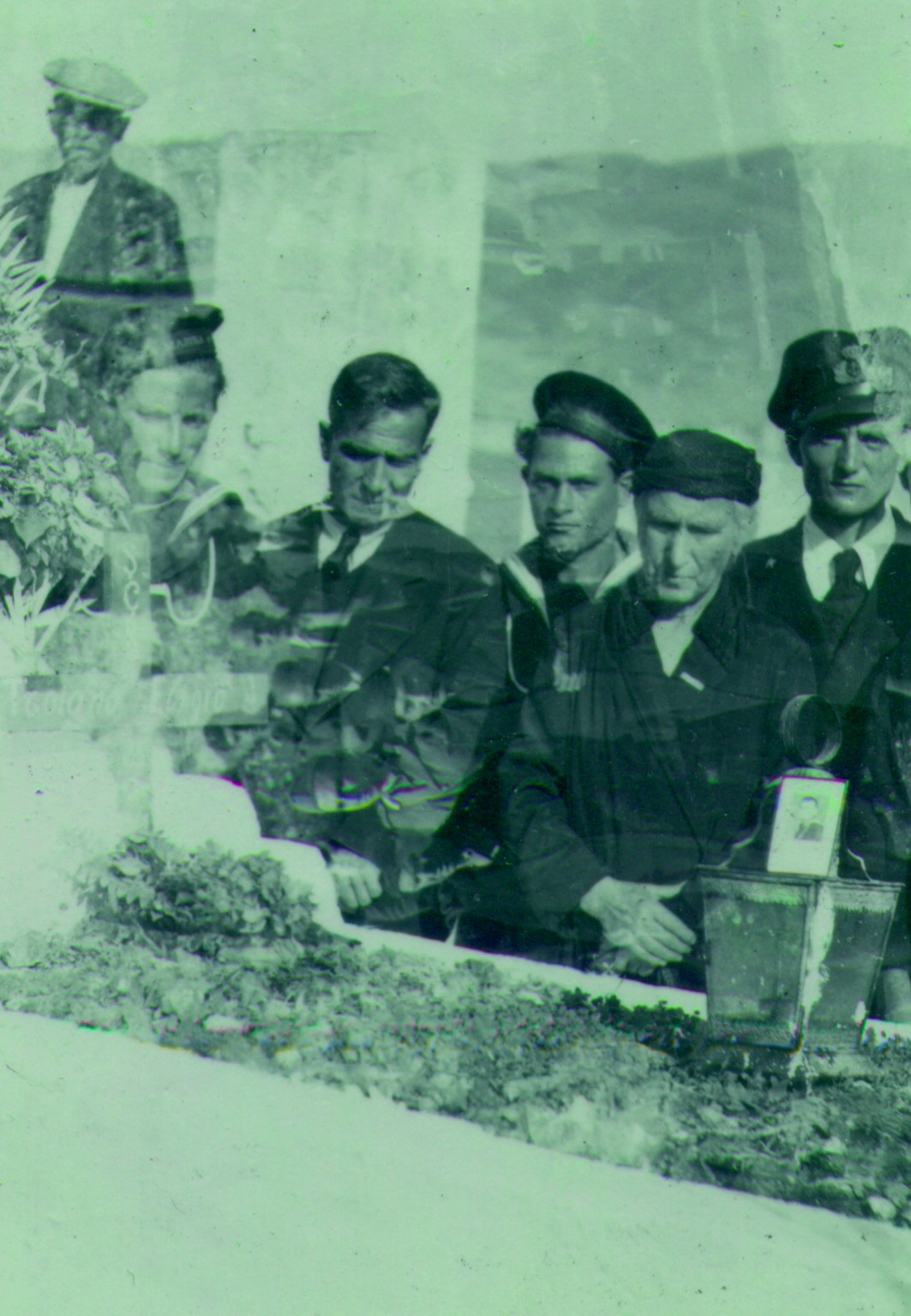 Teacher Anastasia Arnaoutoglou praying in front of the grave of Italian sailor Eligio Troiano on Castellorizo on 2nd November 1941